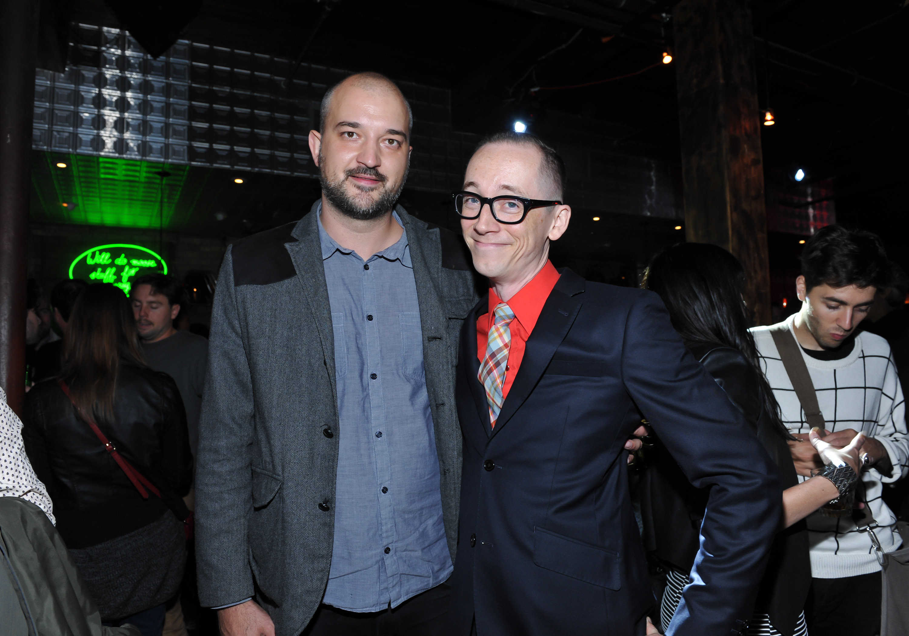 CFC alumnus Todor Kobakov and 2014 Slaight Music resident Michael Peter Olsen. Photo: Sam Santos/George Pimentel Photography.